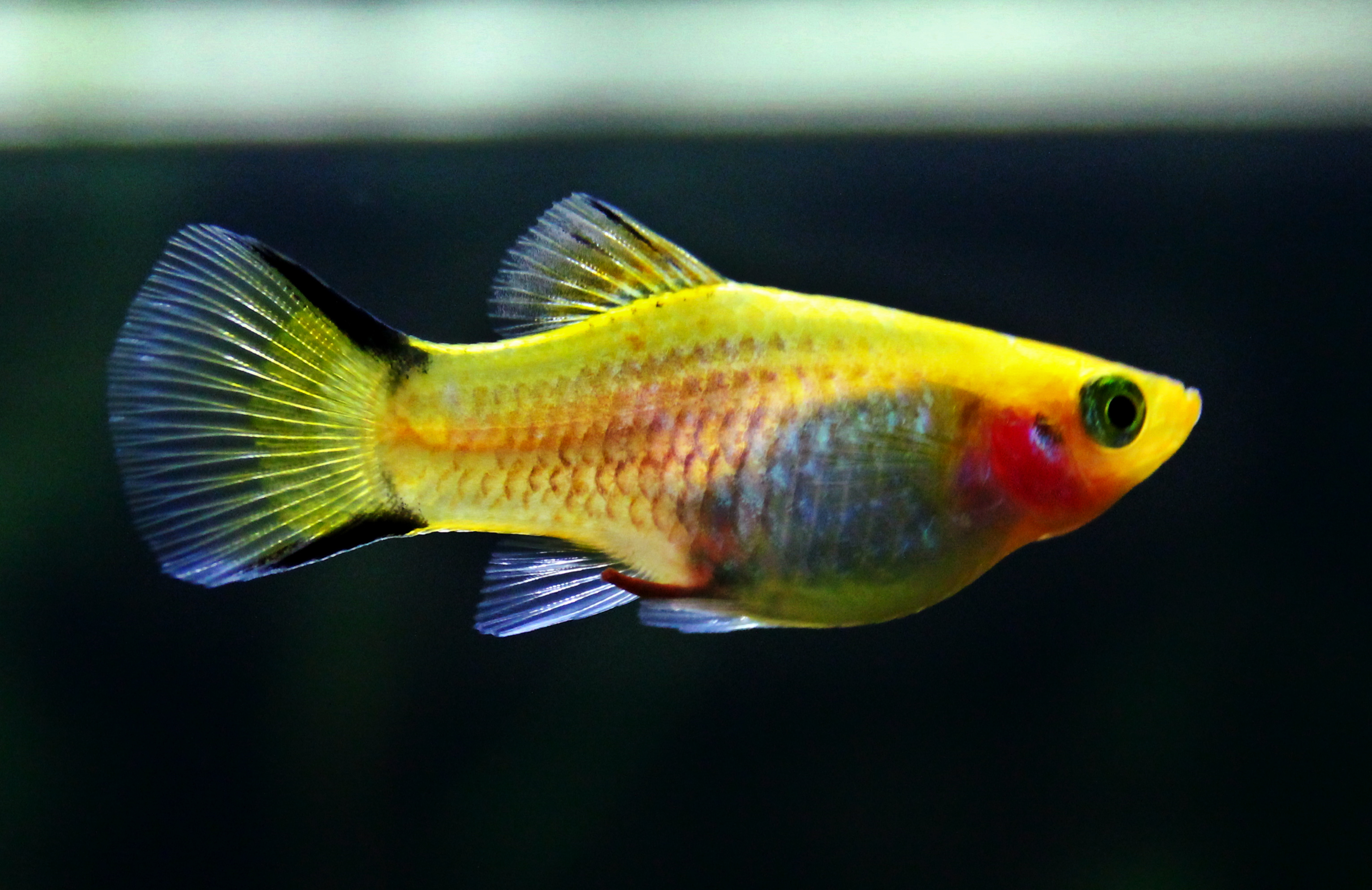 Xiphophorus maculatus